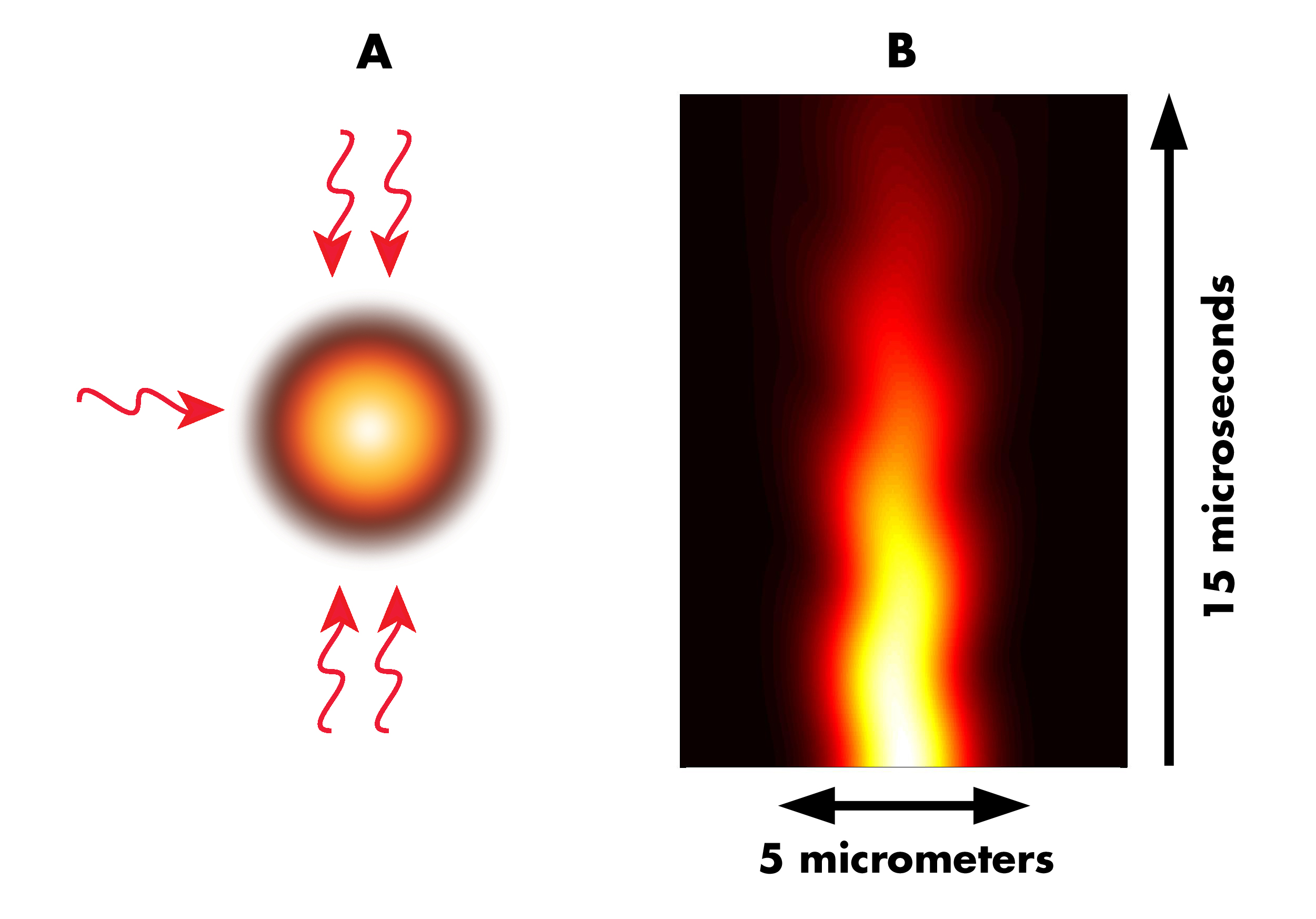 A) Optical lattice of five laser beams trapping an atomic cloud. Color scale indicates cloud density: black is low, white high. B) Jittering motion of the atomic cloud in the optical lattice. The horizontal axis represents the spatial distribution of the cloud along one direction, while the vertical axis shows the variation of cloud density with time. Credit: NIST Disclaimer: Any mention of commercial products within NIST web pages is for information only; it does not imply recommendation or endorsement by NIST. Use of NIST Information: These World Wide Web pages are provided as a public service by the National Institute of Standards and Technology (NIST). With the exception of material marked as copyrighted, information presented on these pages is considered public information and may be distributed or copied. Use of appropriate byline/photo/image credits is requested.